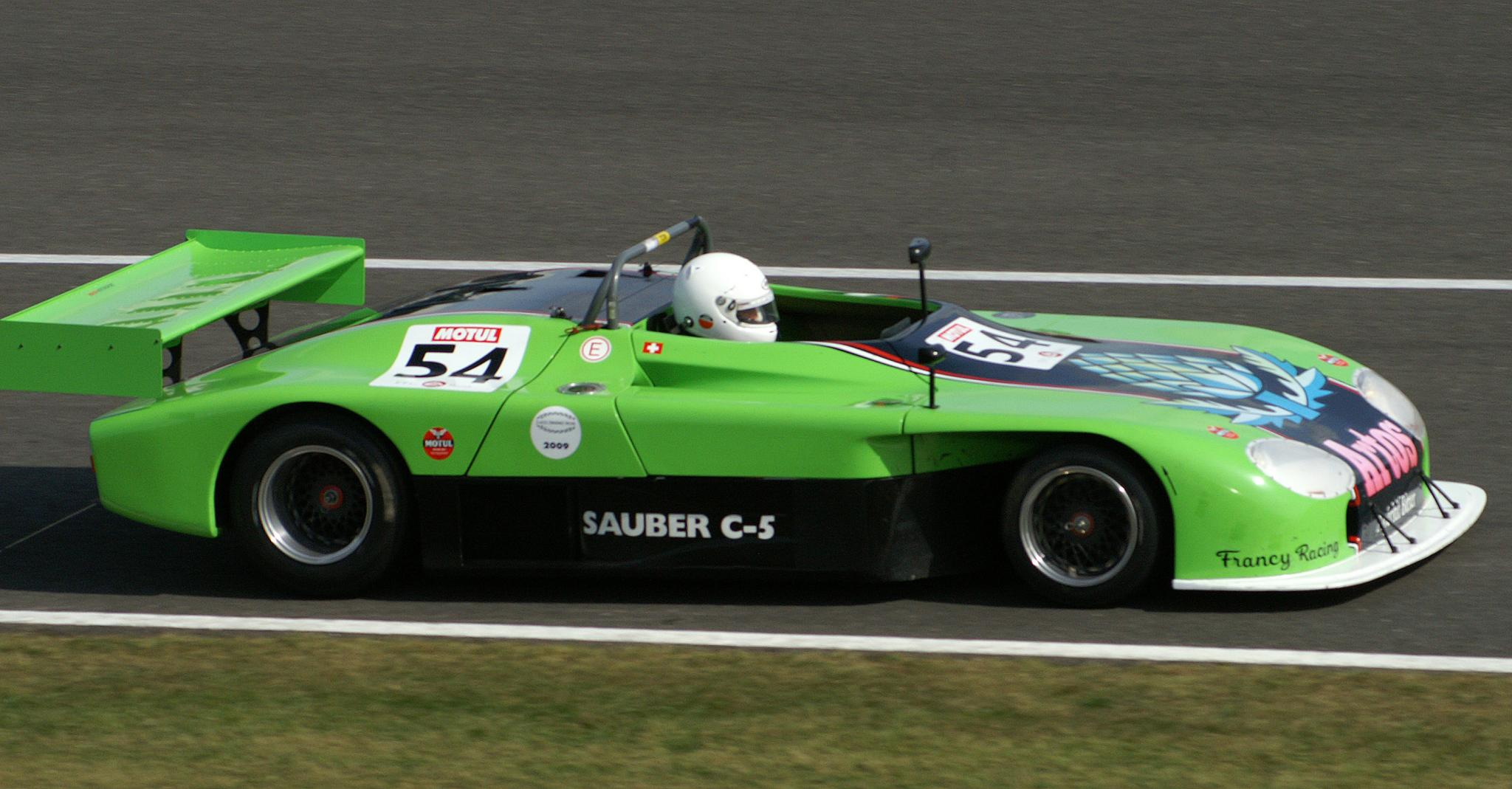 1976 Sauber C5 at Silverstone Classic Endurance Car Racing in September 2009